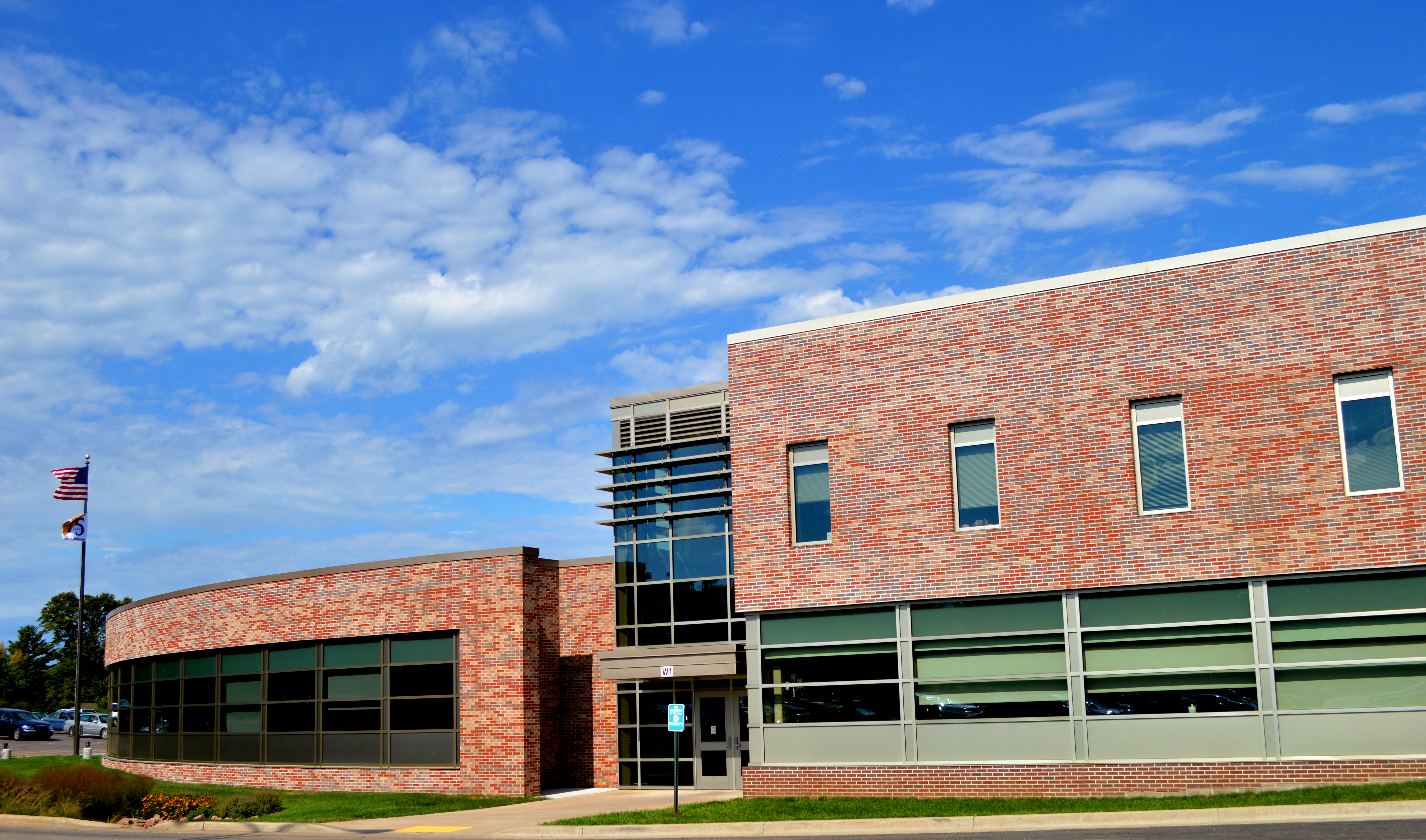 Exterior view of WITC-Rice Lake